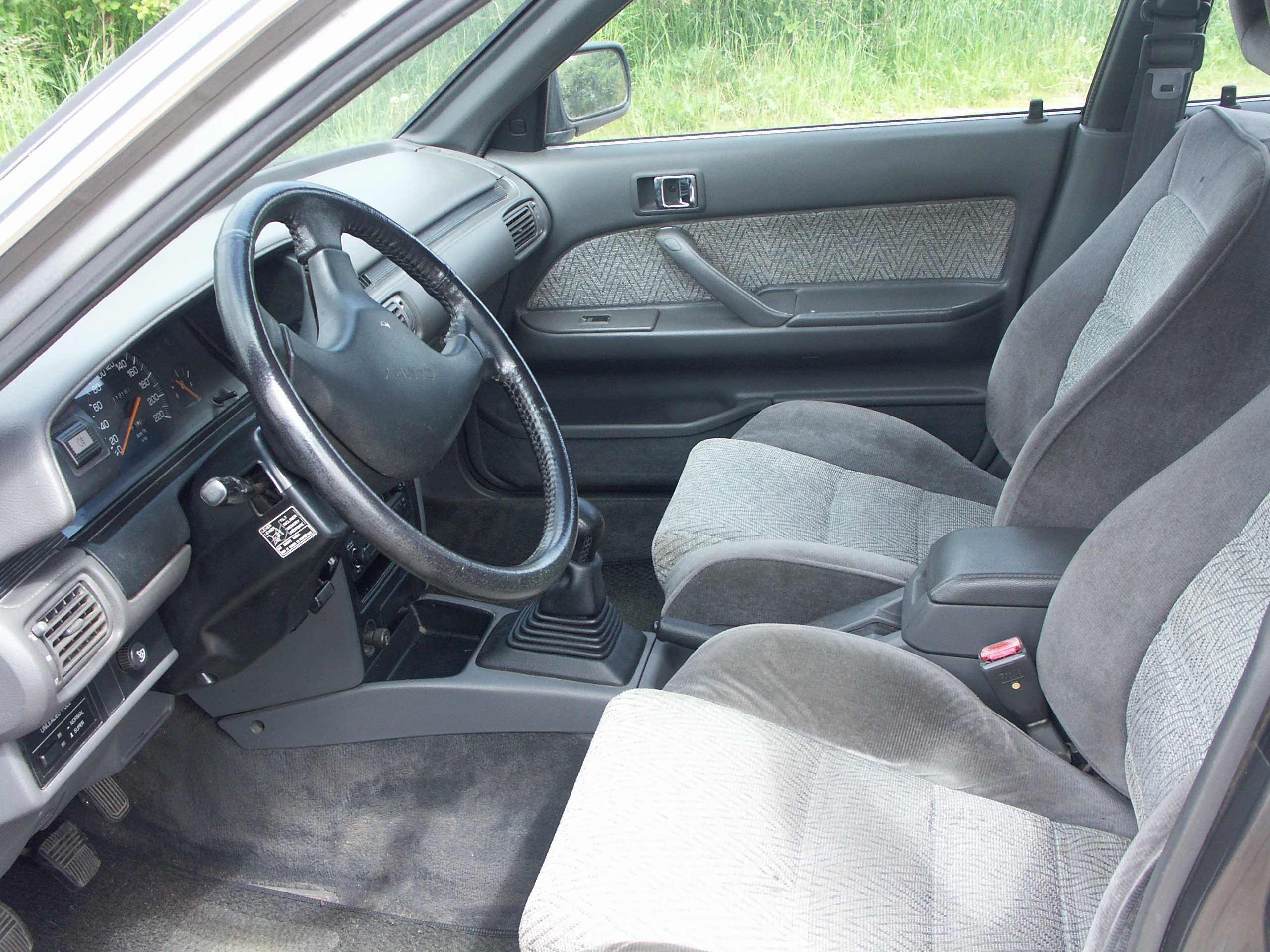 1987 Toyota Camry Interior View